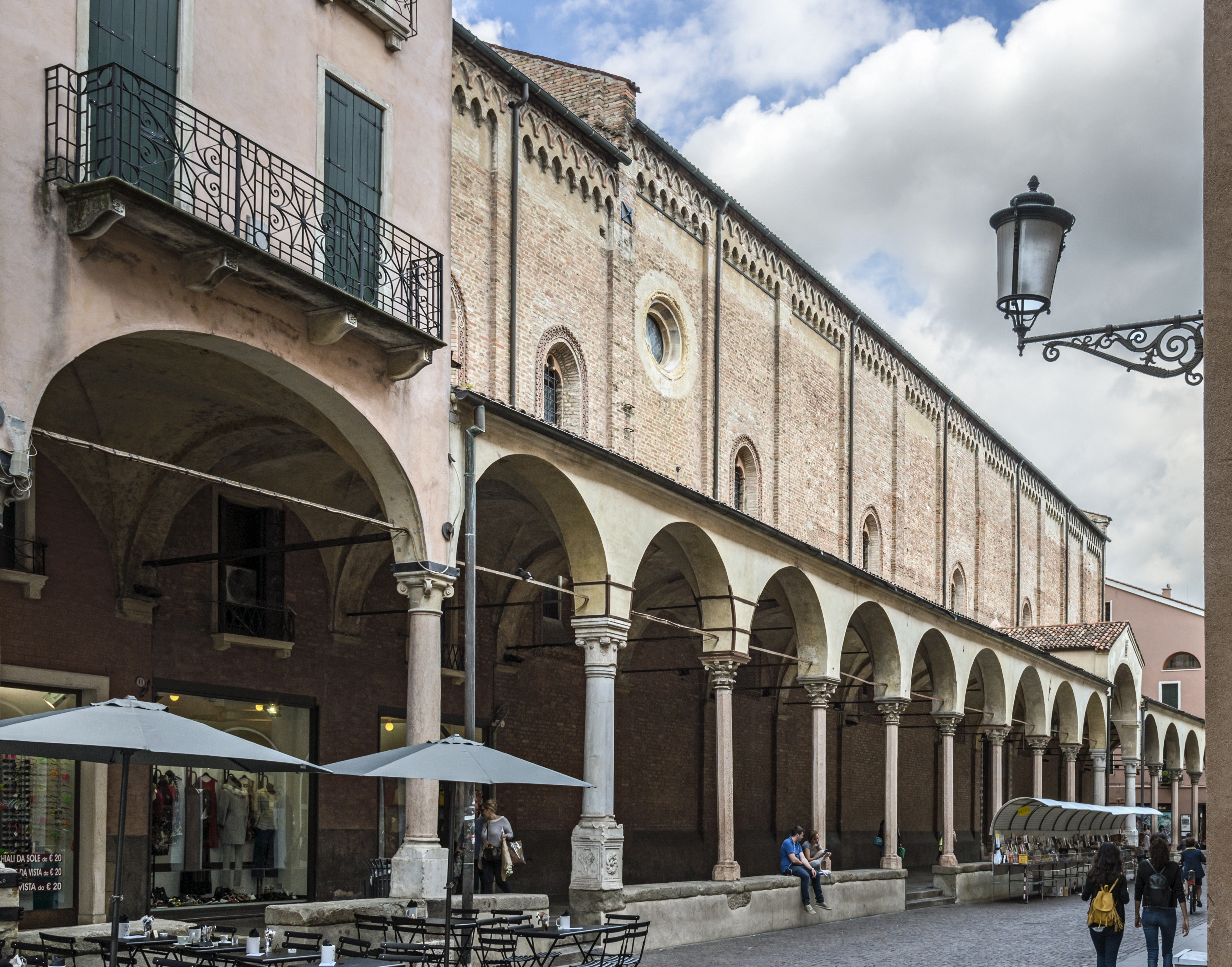 Church of Santa Maria dei Servi, Padua and loggiato del Campolongo.